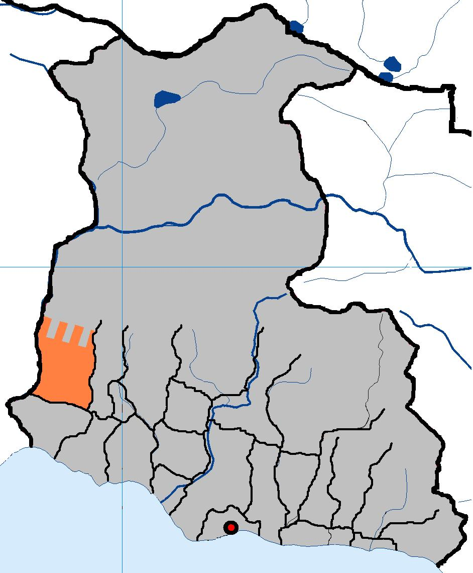 Map showing the location of the village Kaldakhuara in Abkhazia.